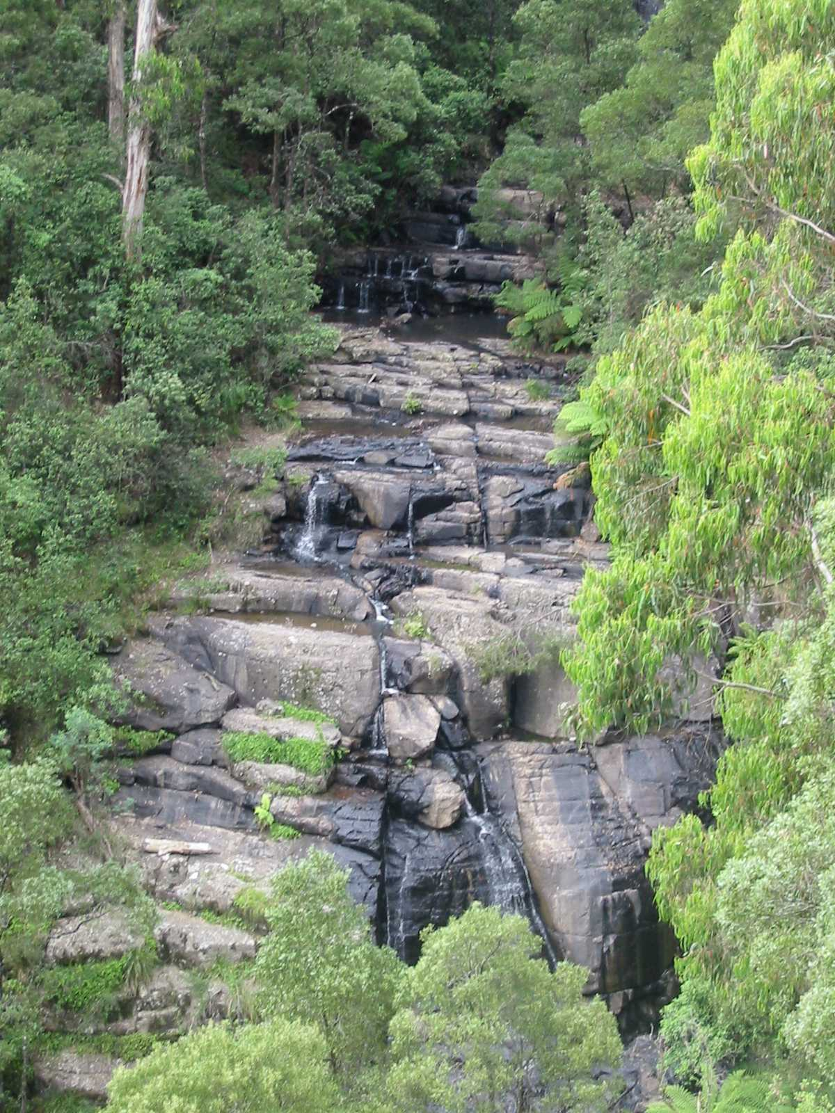 Masons Falls, Kinglake National Park, Victoria. Photo taken by me on recent visit to the site (Dec 2005).